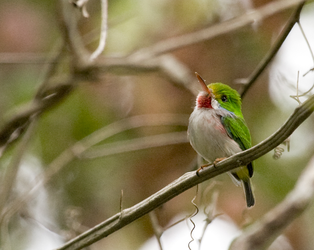 A Cuban Tody in Ciego de Avila Province, Cuba.